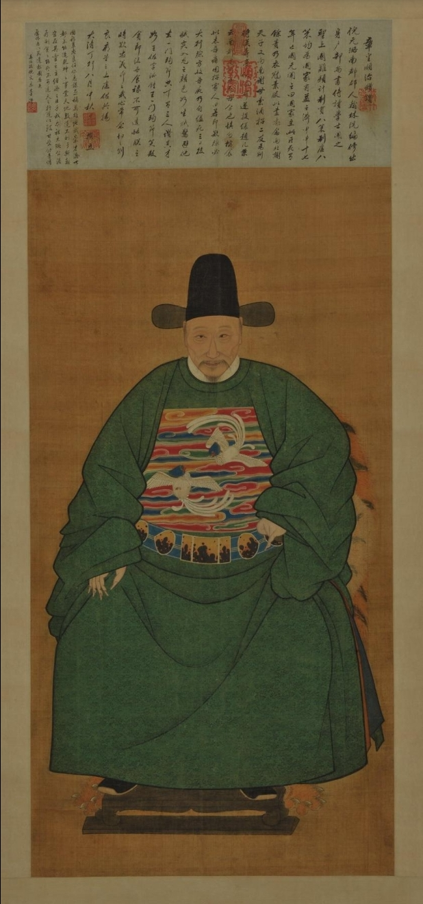 Ni Yuanlu (Chinese: 倪元璐; pinyin: Ní Yuánlù; Wade-Giles: Ni Yüan-lu); ca. 1593-1644 was a Chinese calligrapher and painter during the Ming Dynasty (1368–1644).